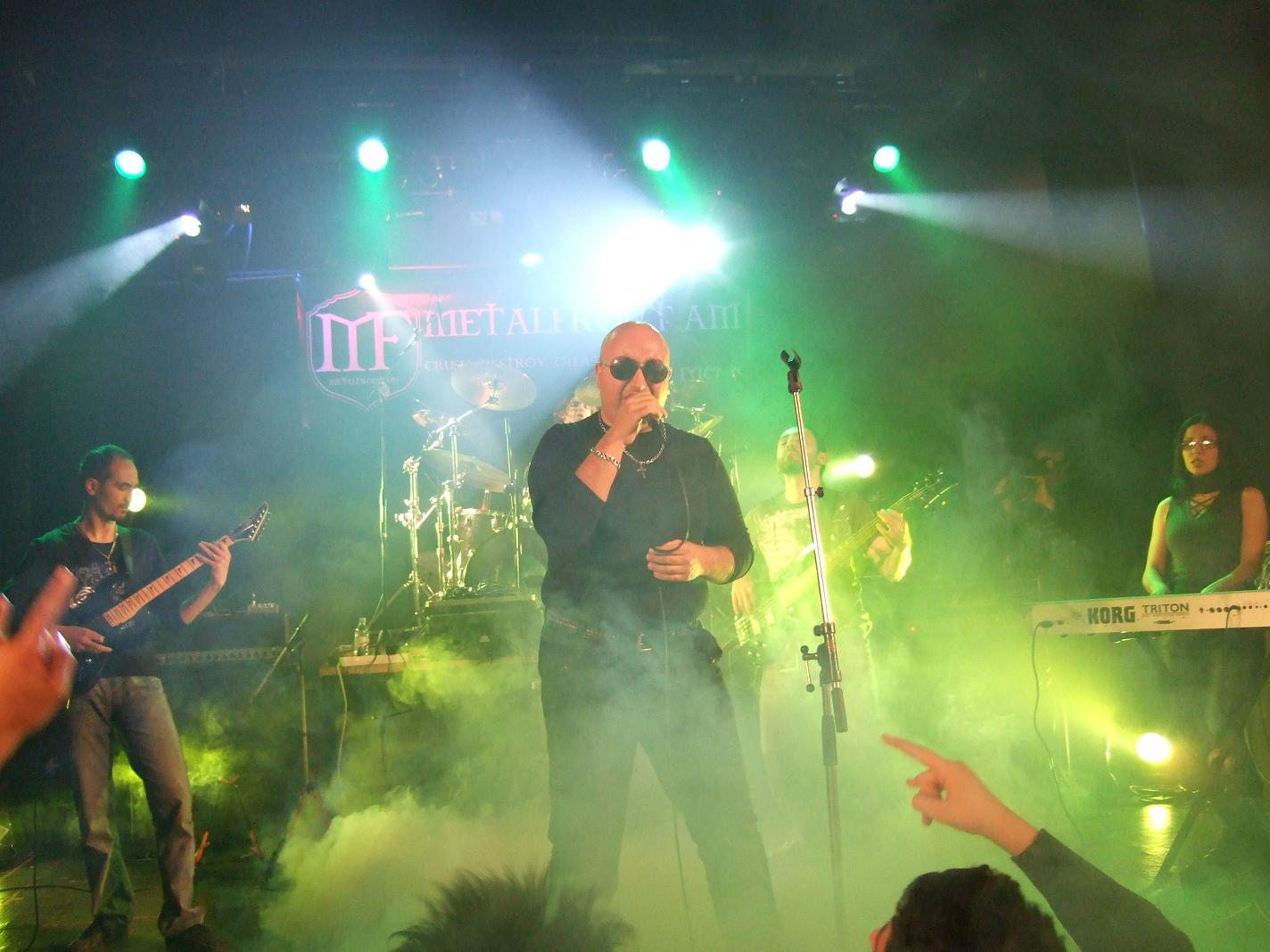 Empyray, the hard rock band, at the Metalfront Festival at the Yerevan State Puppet Theater in Yerevan, Armenia.